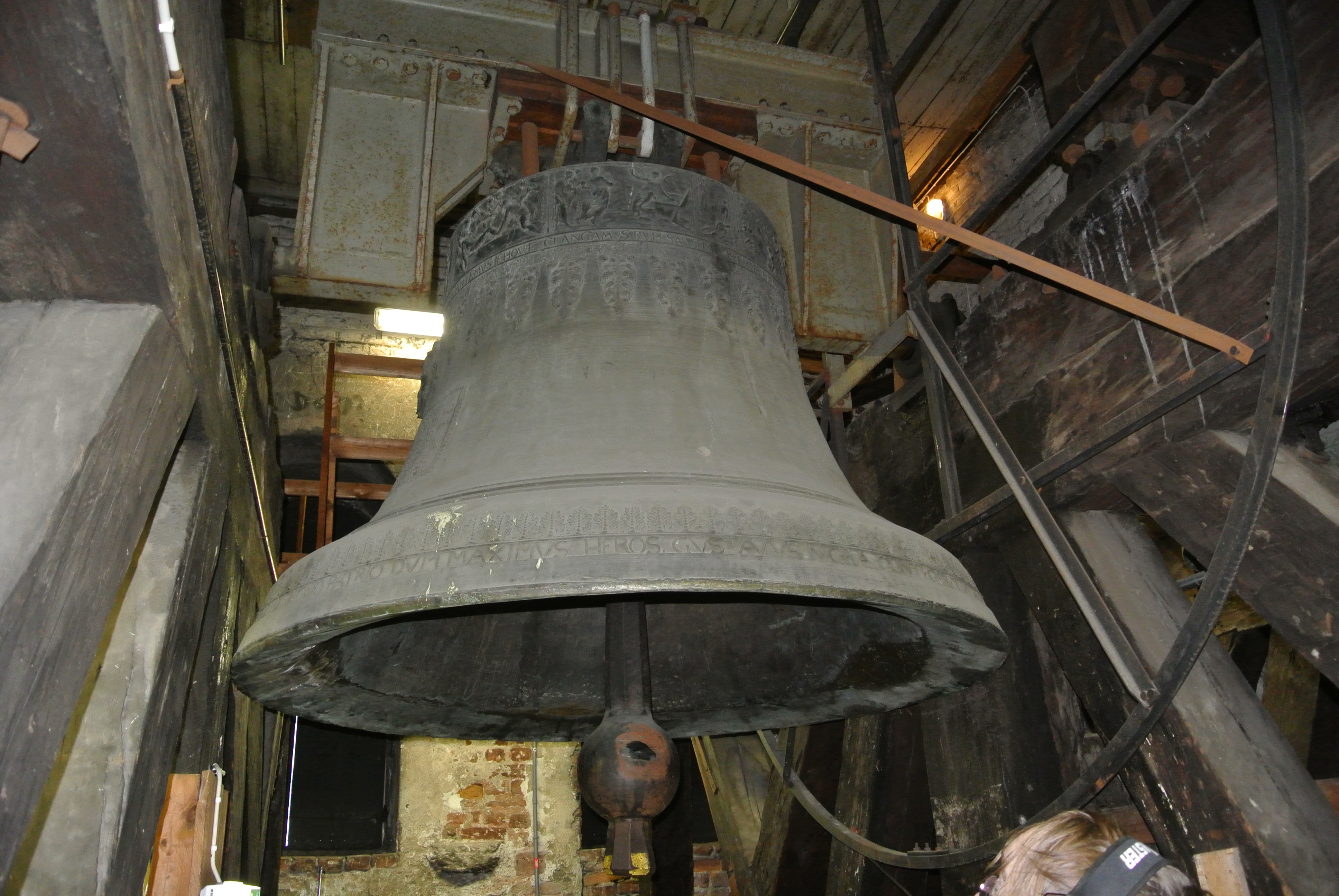 Storklockan i Storkyrkan i Stockholm är gjuten år 1638 av Jurgen Putensen och väger 5200 kg